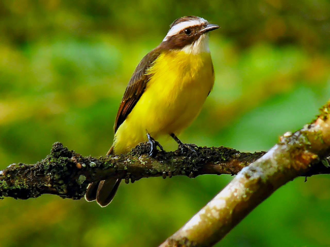 A Rusty-margined Flycatcher in Manizales, Caldas, Colombia.